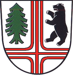 Coat of arms of the Town Hermsdorf (Thüringen)